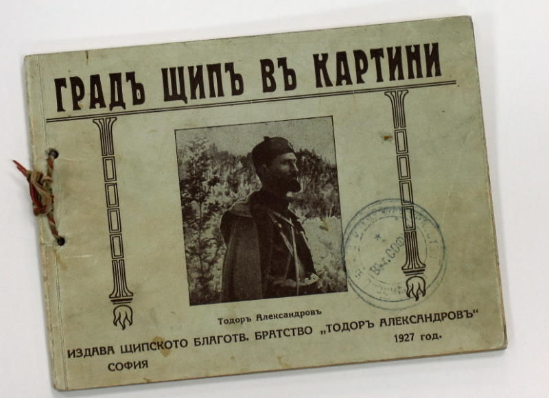 Grad Shtip V Kartini